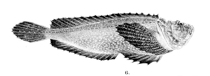 Trachicephalus uranoscopus